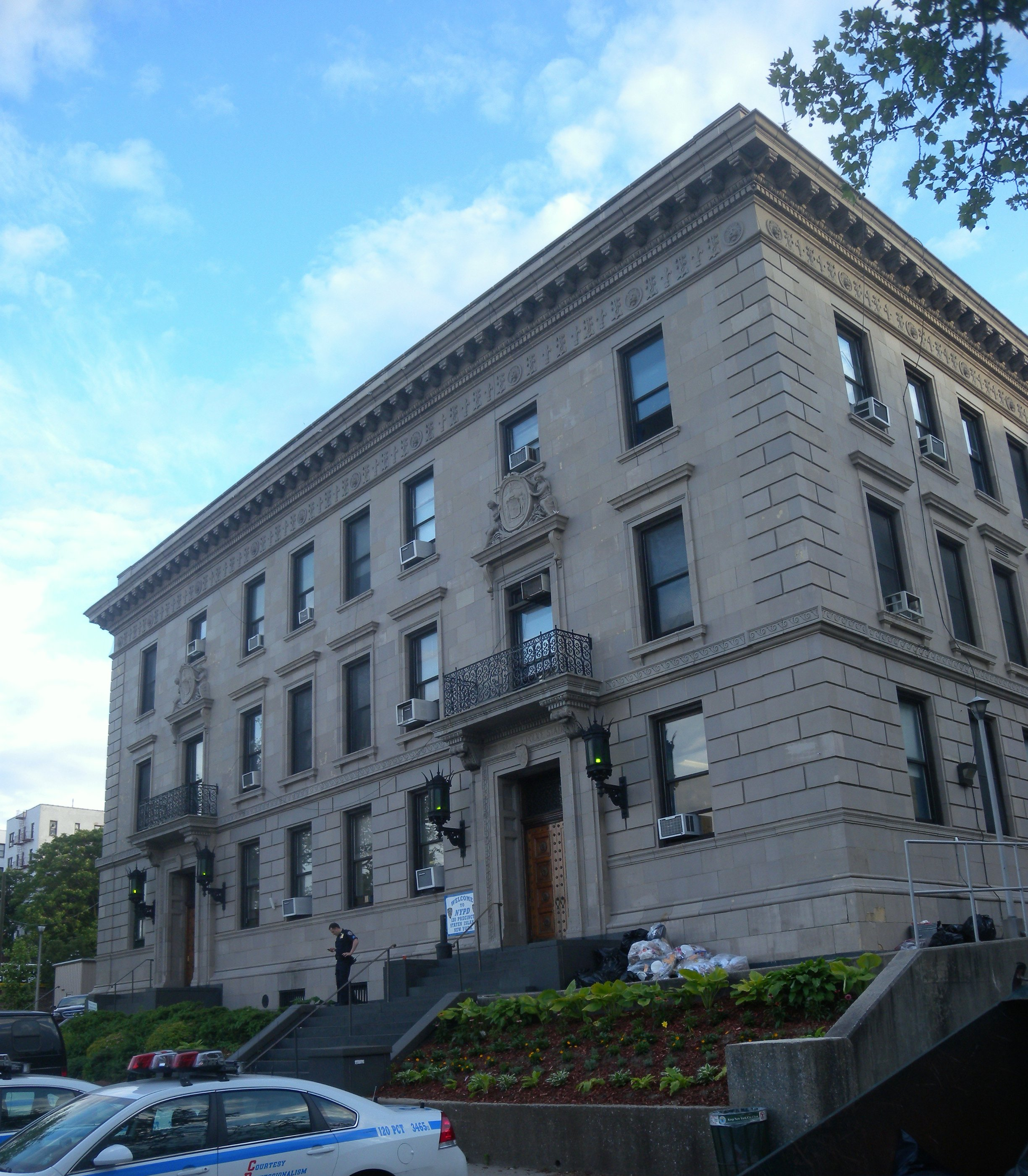 looking south at 120th Precinct on a mostly cloudy late afternoon.